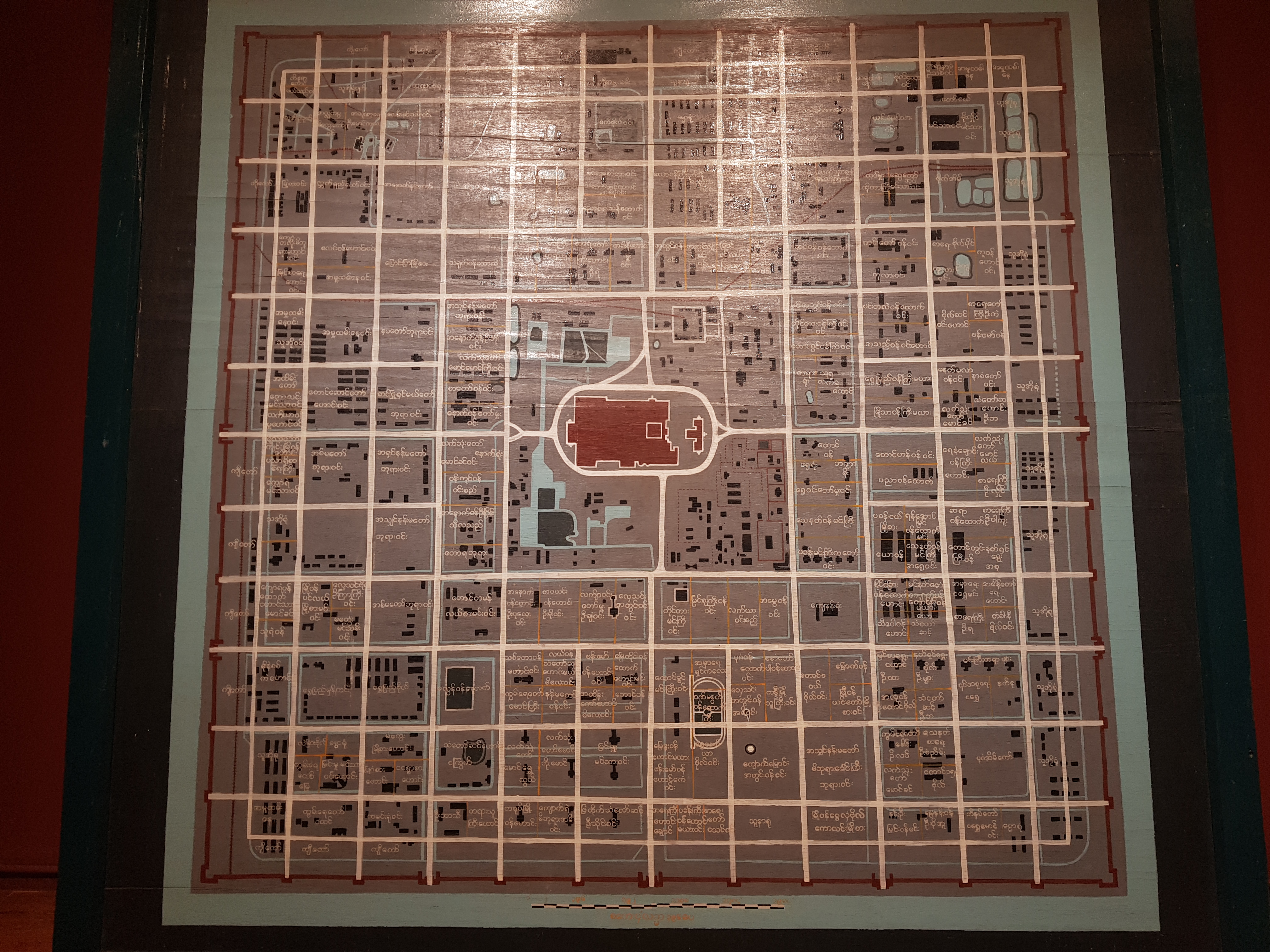 The map of Mandalay palace displayed in the museum.